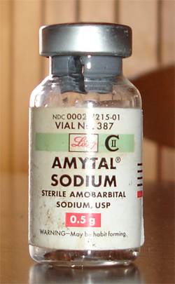 A picture of Amytal Sodium taken by me in upstate New York.